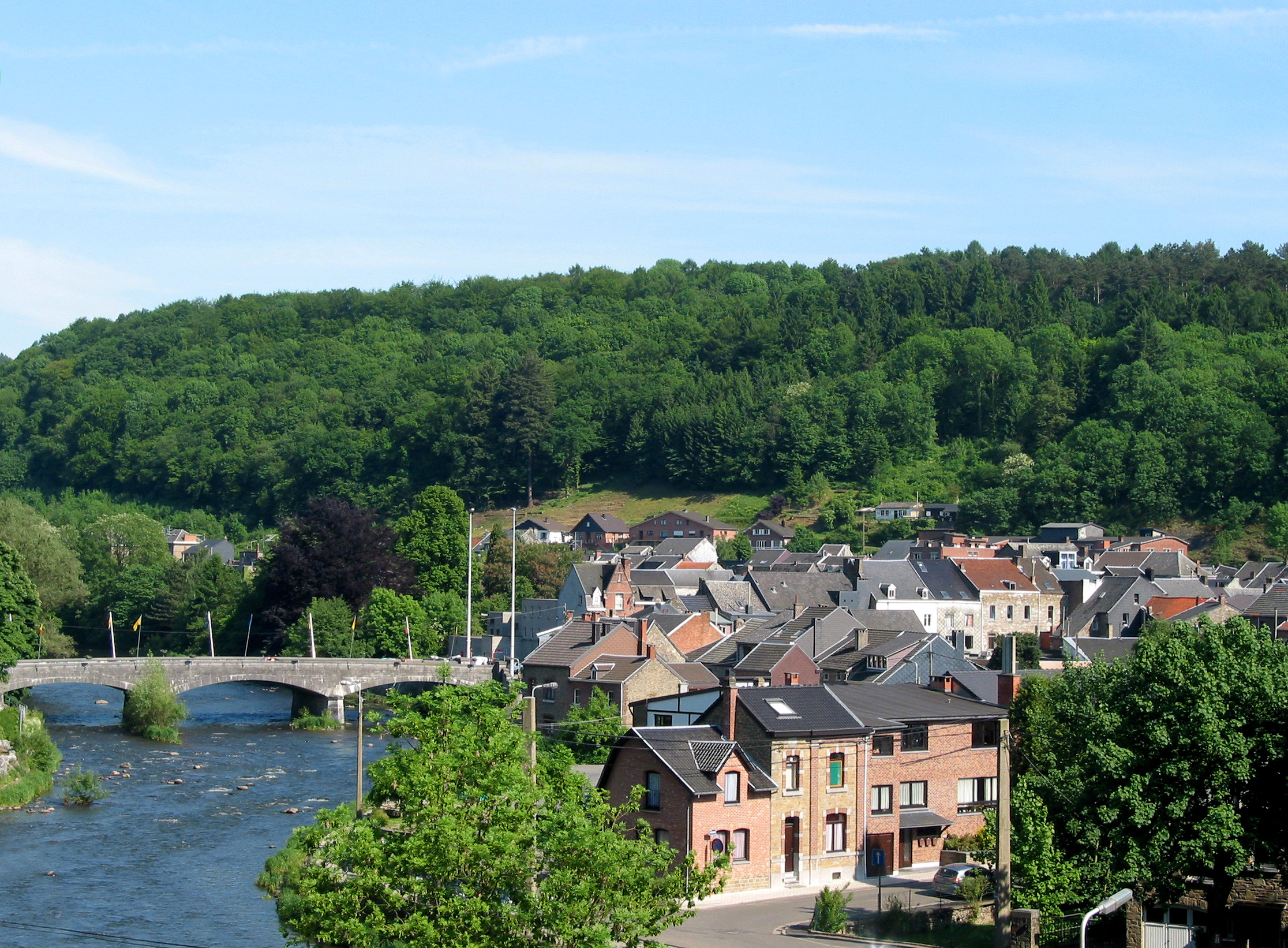 Aywaille (Belgium), the bridge on the Amblève river and the city.